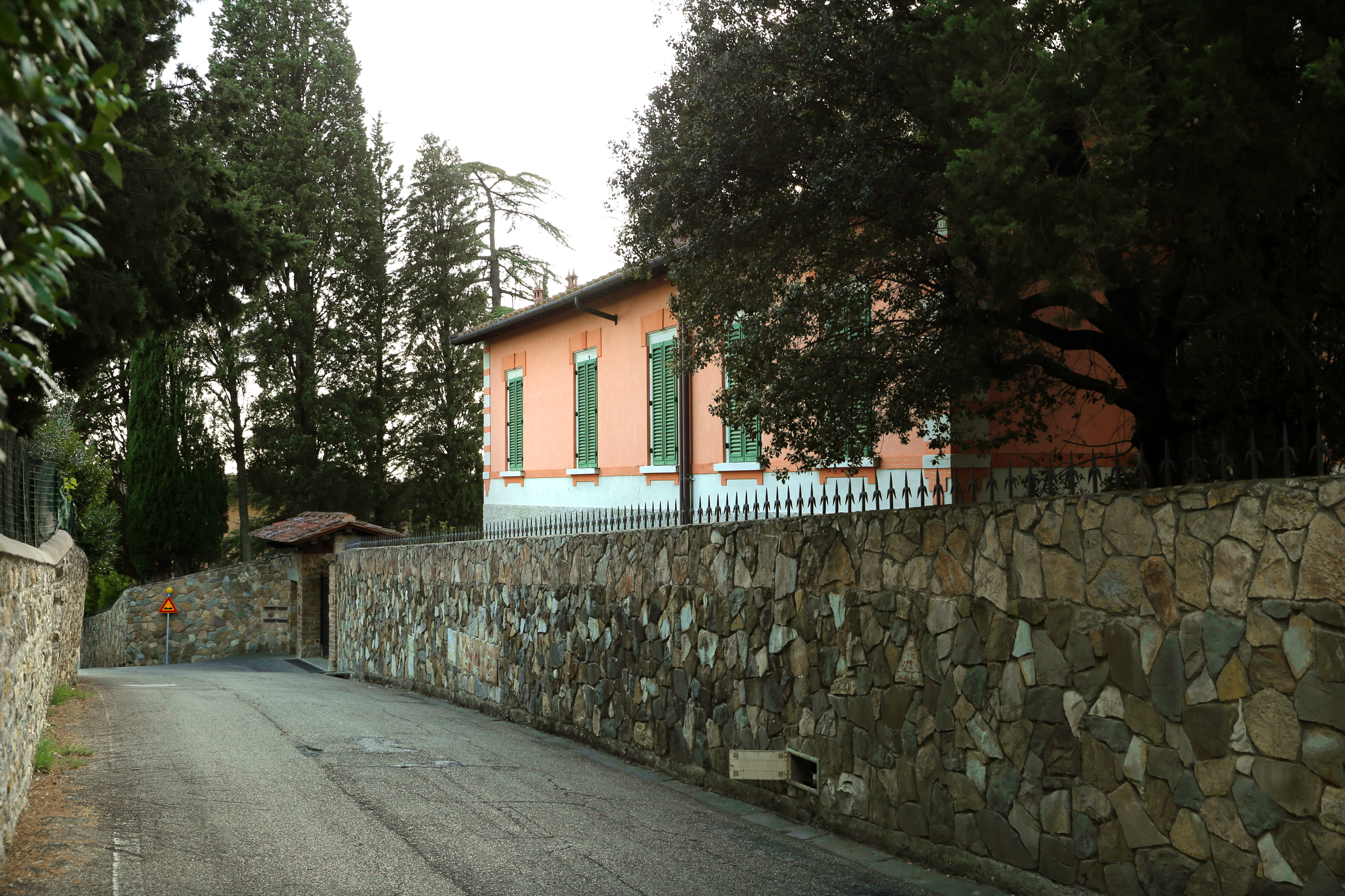 Settignano